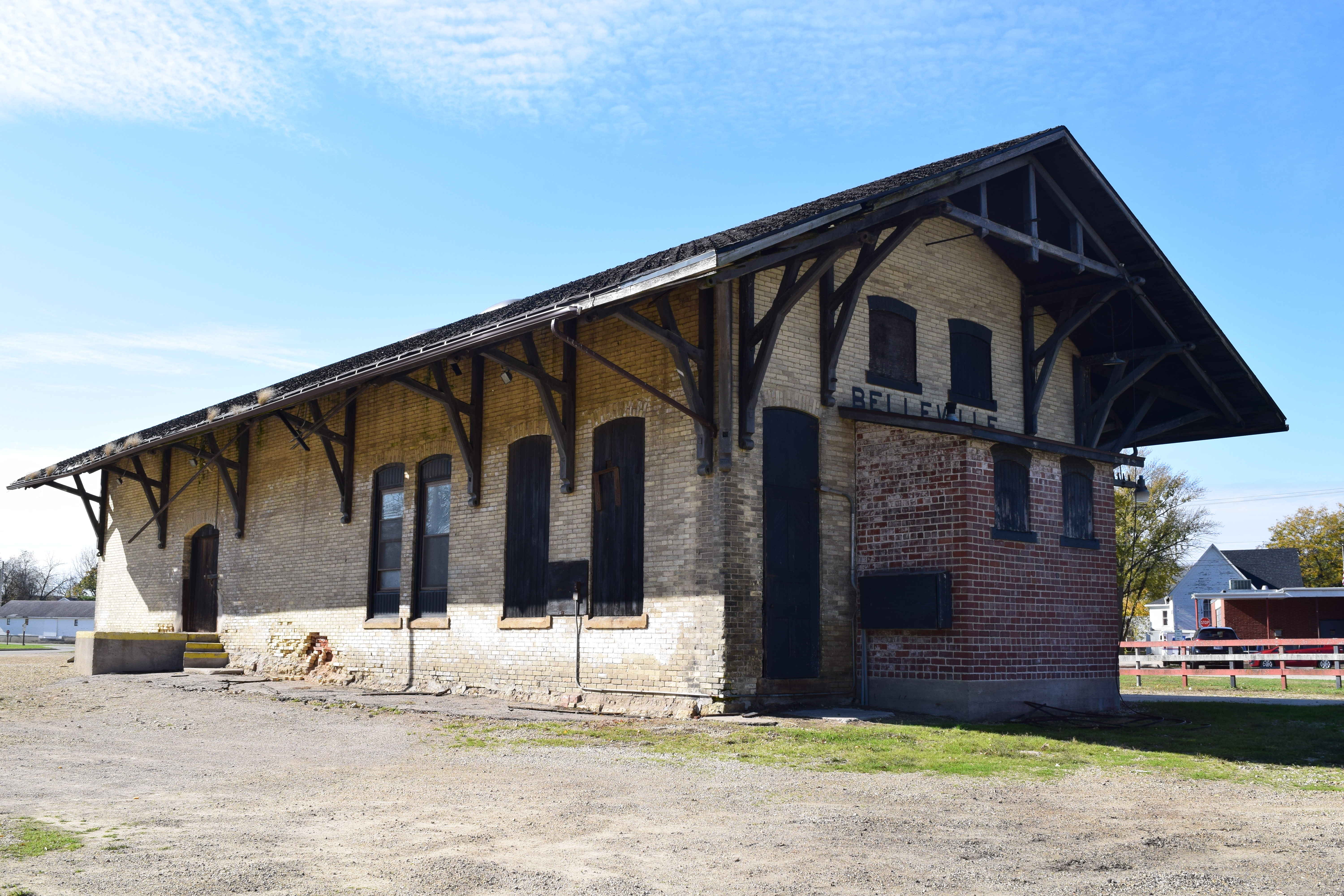 The Belleville Illinois Central Railroad Depot, located at 109 S. Park St. in Belleville, Wisconsin. The depot is listed on the National Register of Historic Places.